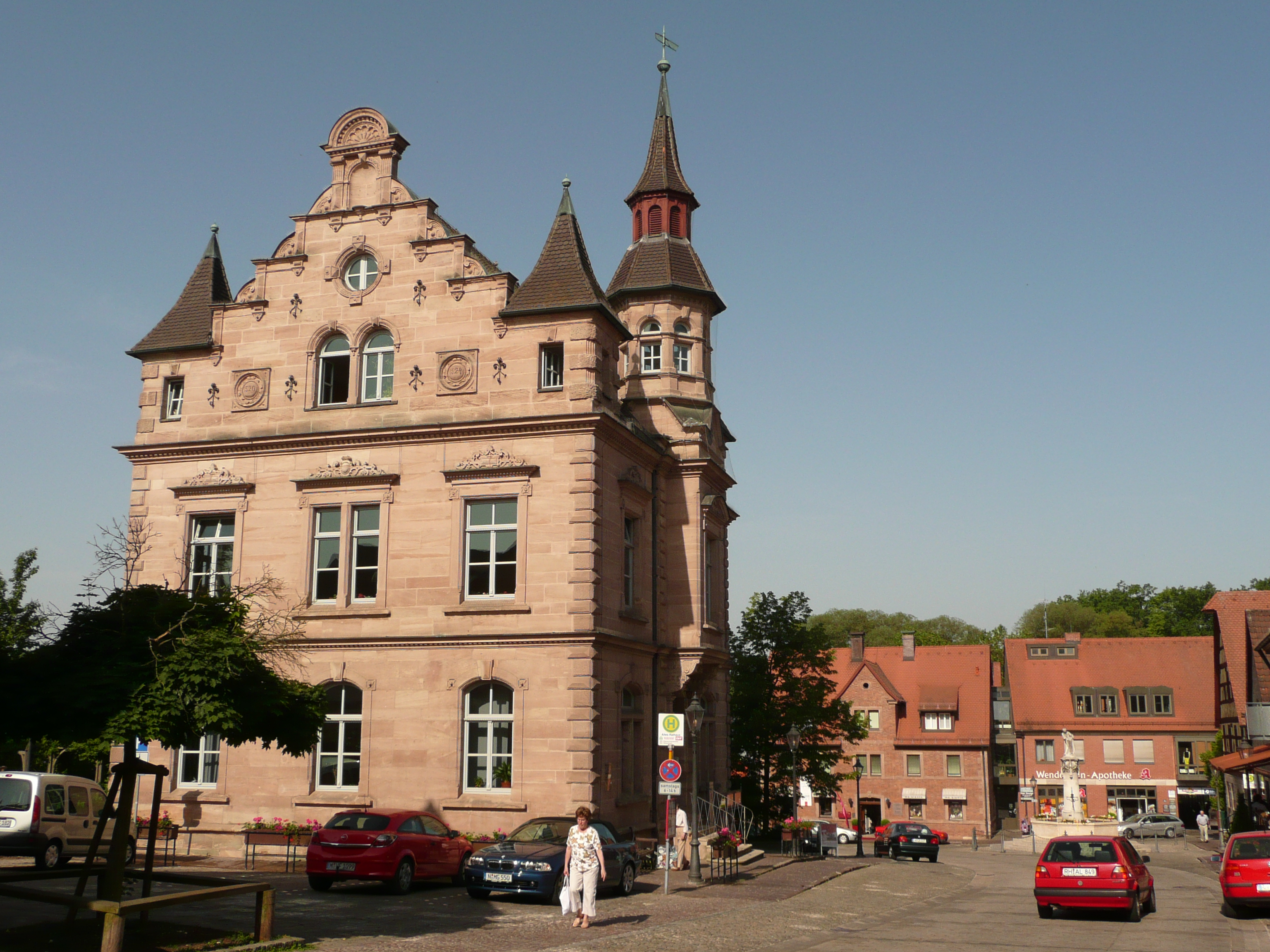 Center of Wendelstein, Germany